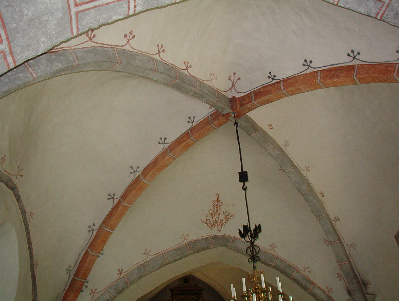 Interior mural paintings. Date: June 2003